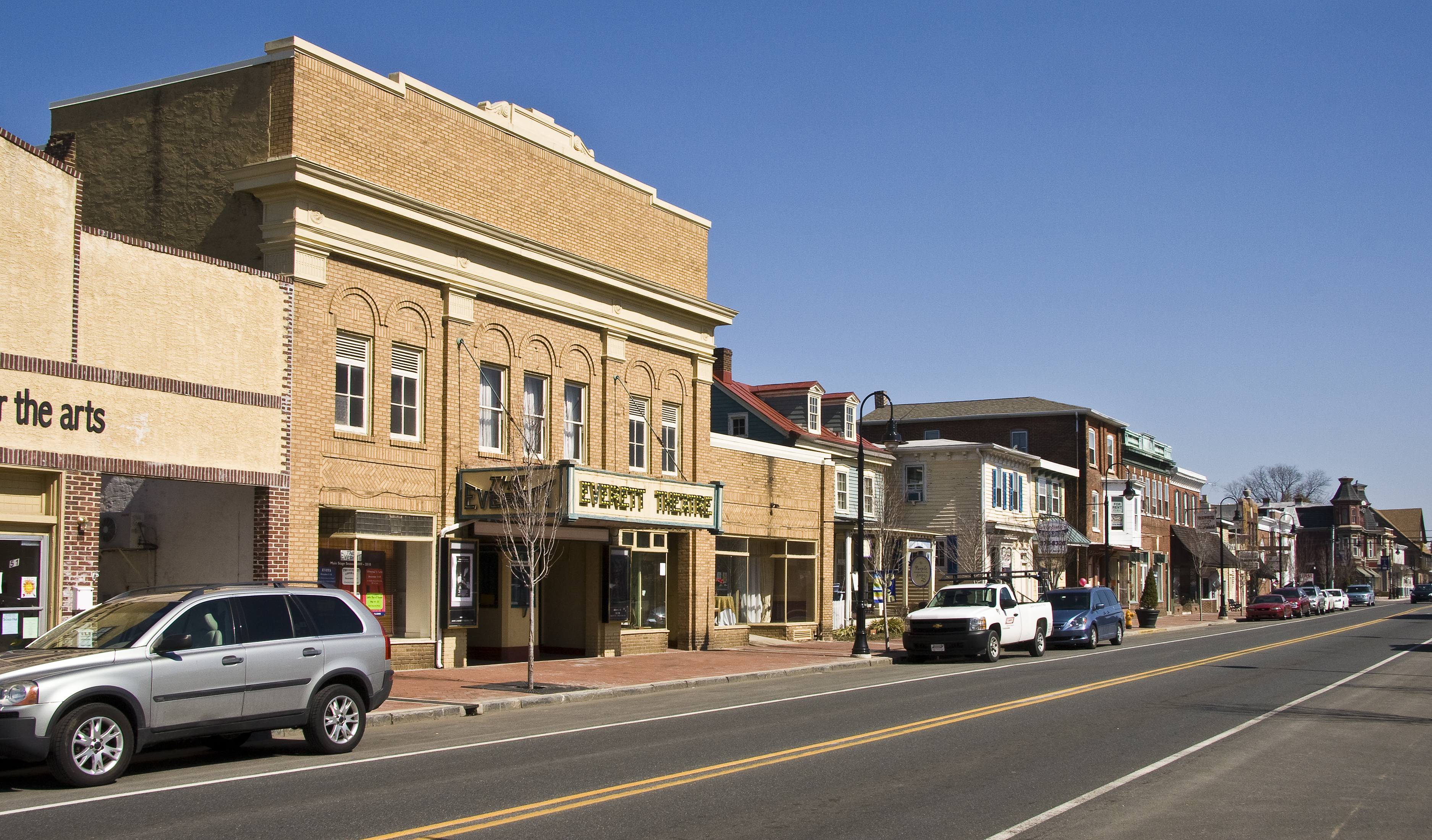 Downtown Middletown, Delaware historic district, Delaware, USA